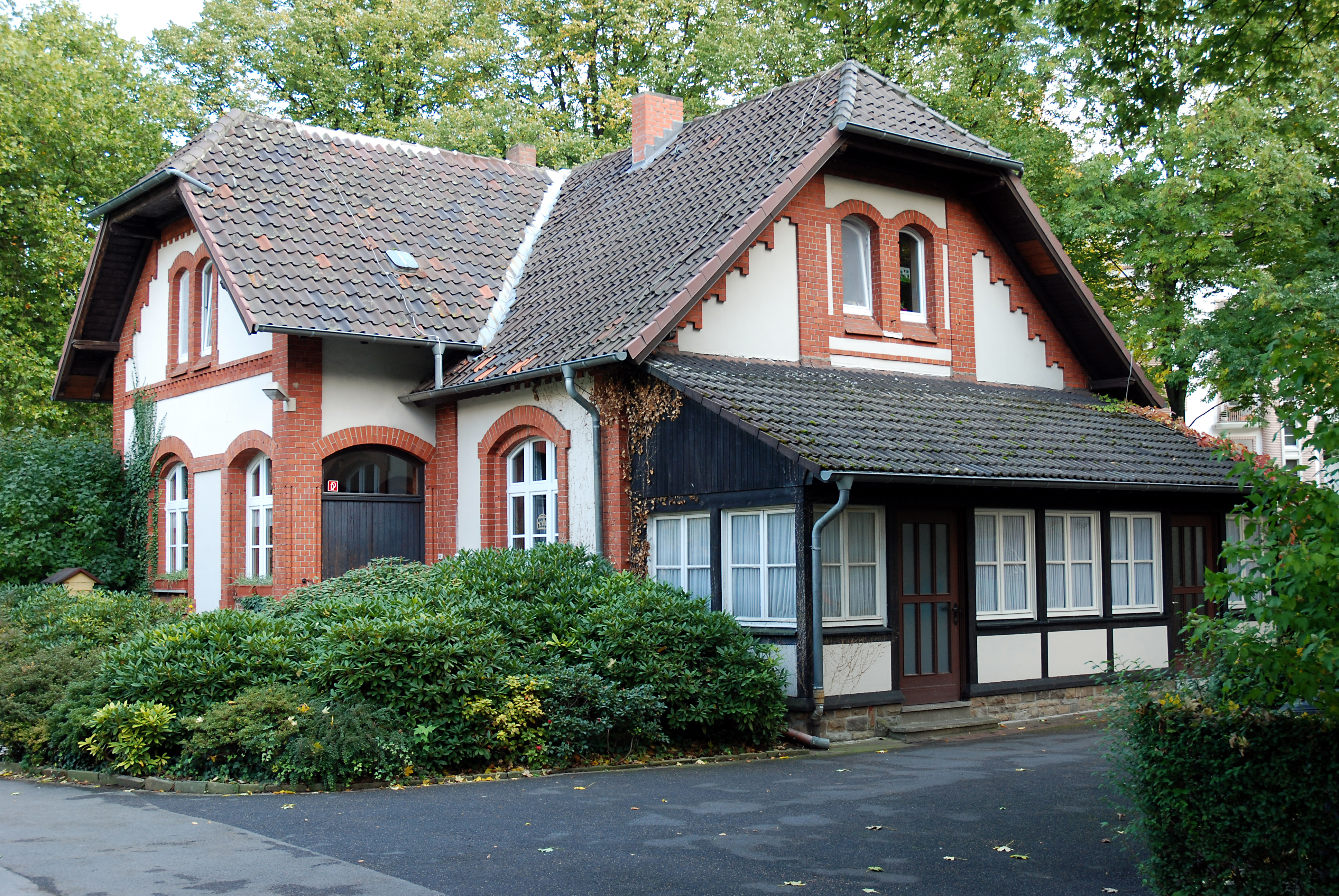 Dortmund, cemetery "Südwestfriedhof"